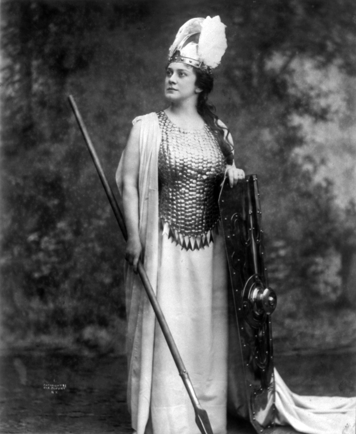 Lillian Nordica as Brünnhilde in Richard Wagner's The Ring